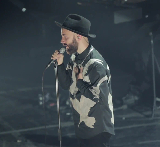 Woodkid live in 2012